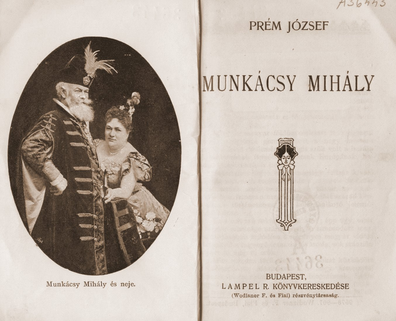 Mihály Munkácsy and his wife in 1896